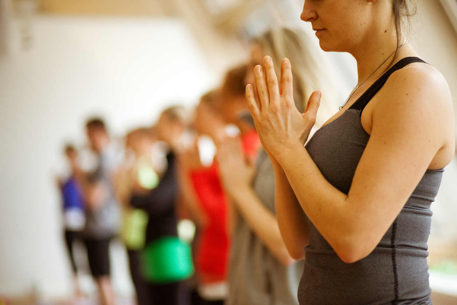 Hands at heart centre.